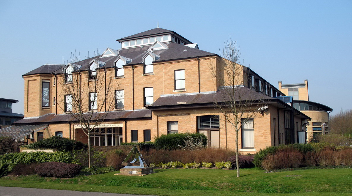 Isaac Newton Institute main building. Sculpture in fron: Intuition by John Robinson.